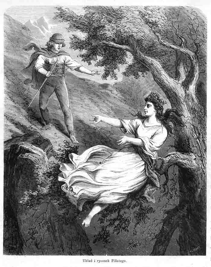 Dziwożona. Technique: woodcut. Dimensions: 204x166 mm. Author: Jan Styfi (1839-1921) after engraving by Henryk Pillati signed on plate: "J. Source: Tygodnik Ilustrowany magazine nr 265 dated 22.10.1864 p.389.